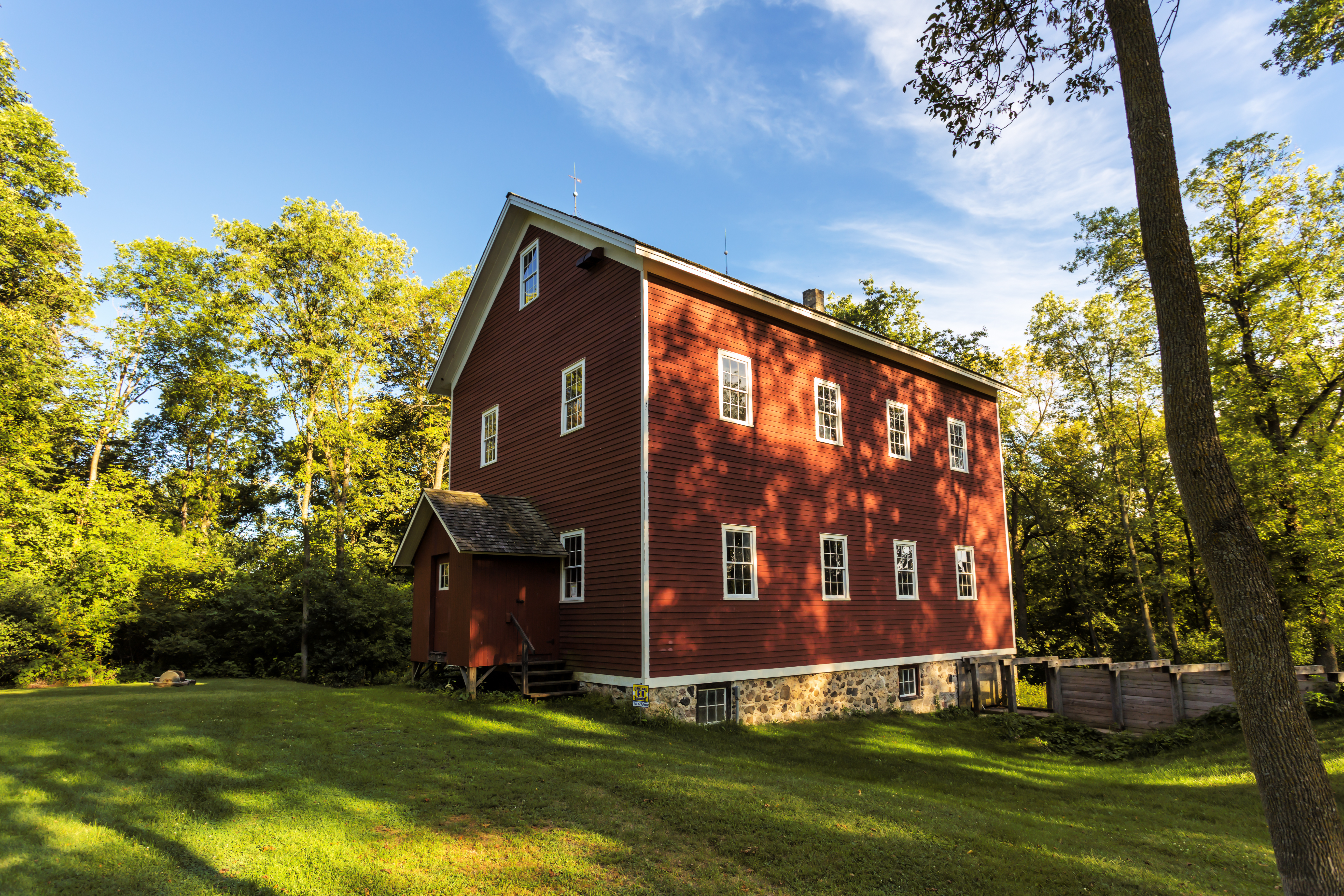 Messer-Mayer Mill, 4399 Pleasant Hill Rd. Richfield